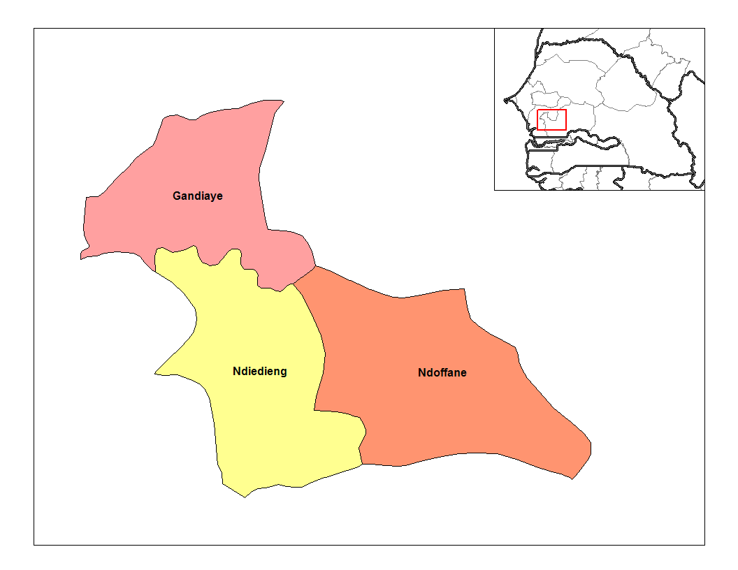 Map of the arrondissements of Kaolack department in Senegal.